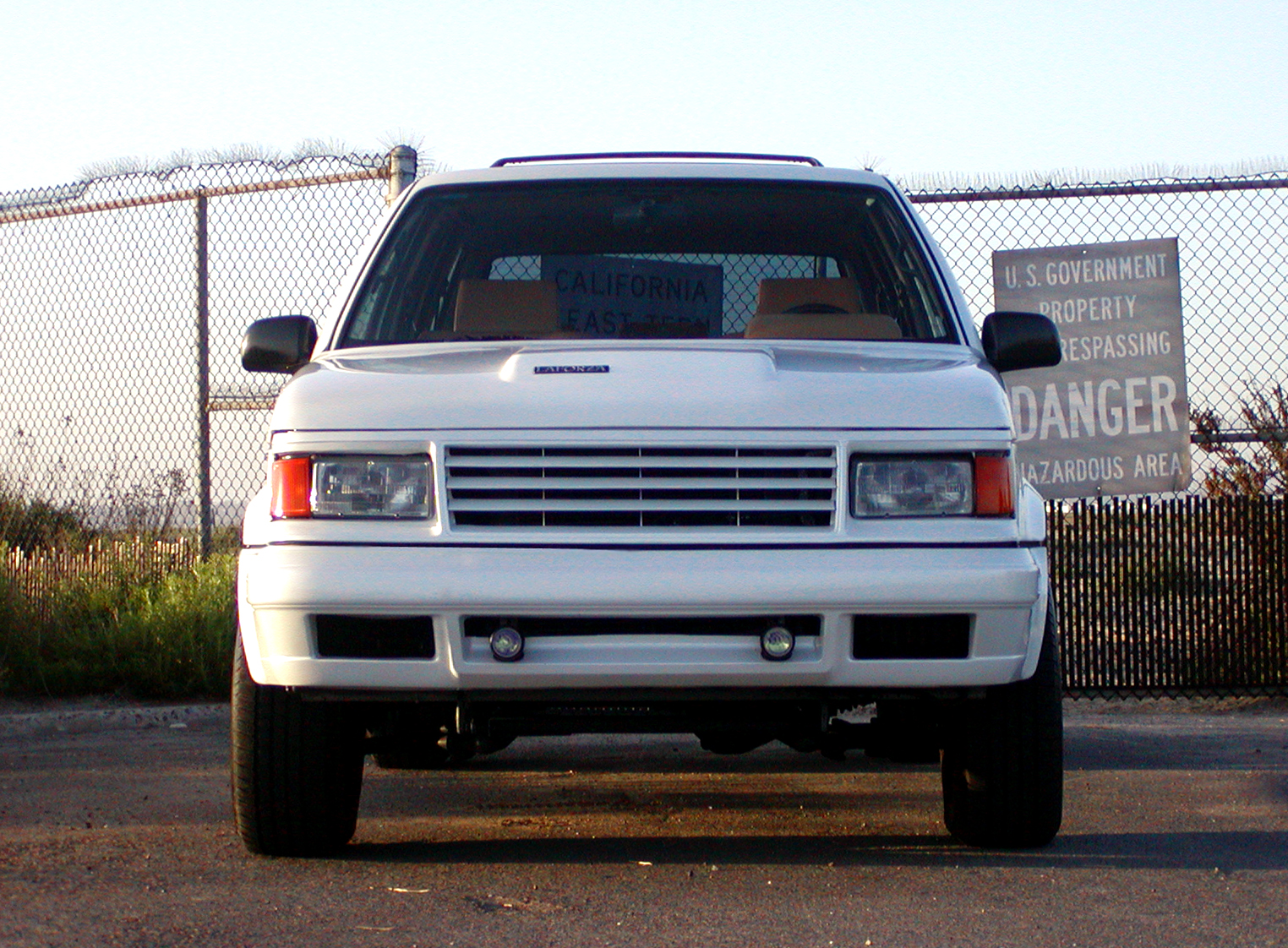 Alessio's 1989 Laforza 5.0 V8, pictured in San Diego, California